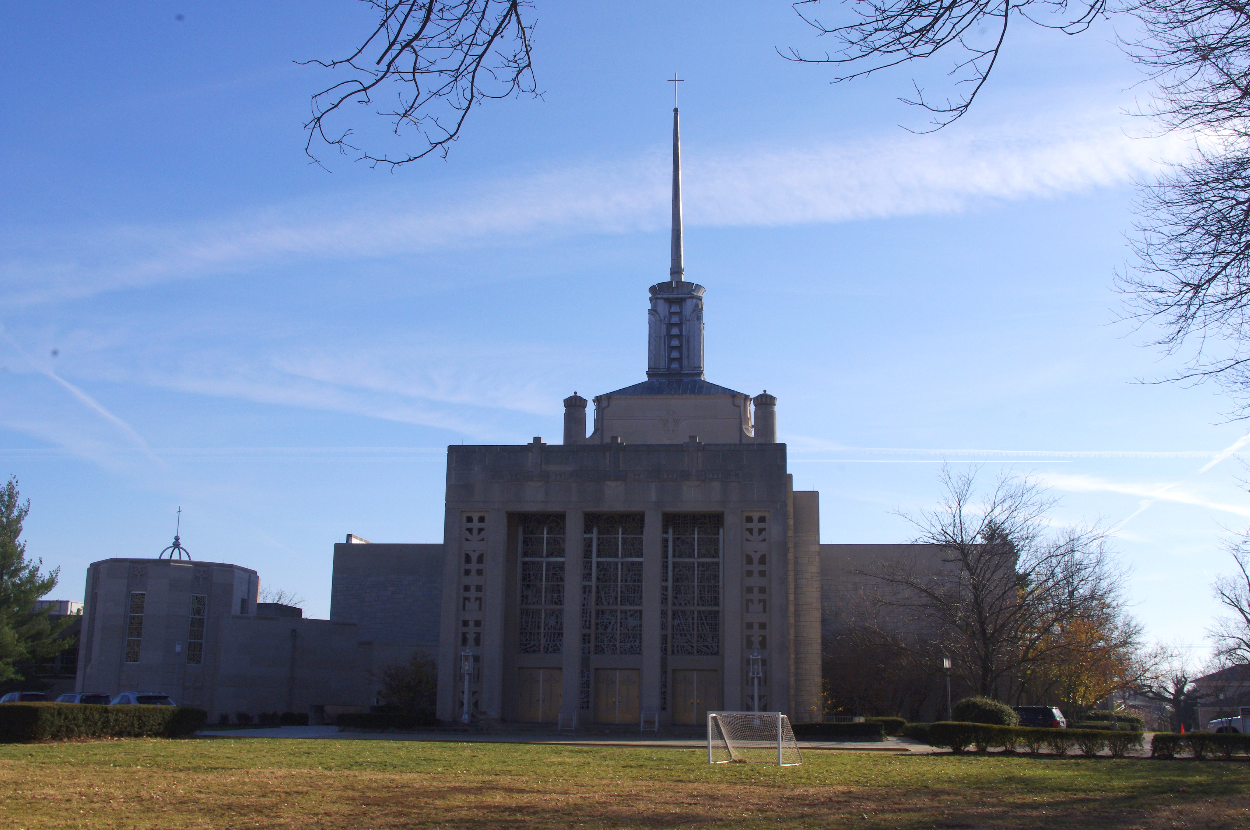 Cathedral of Christ the King (Lexington, Kentucky), exterior